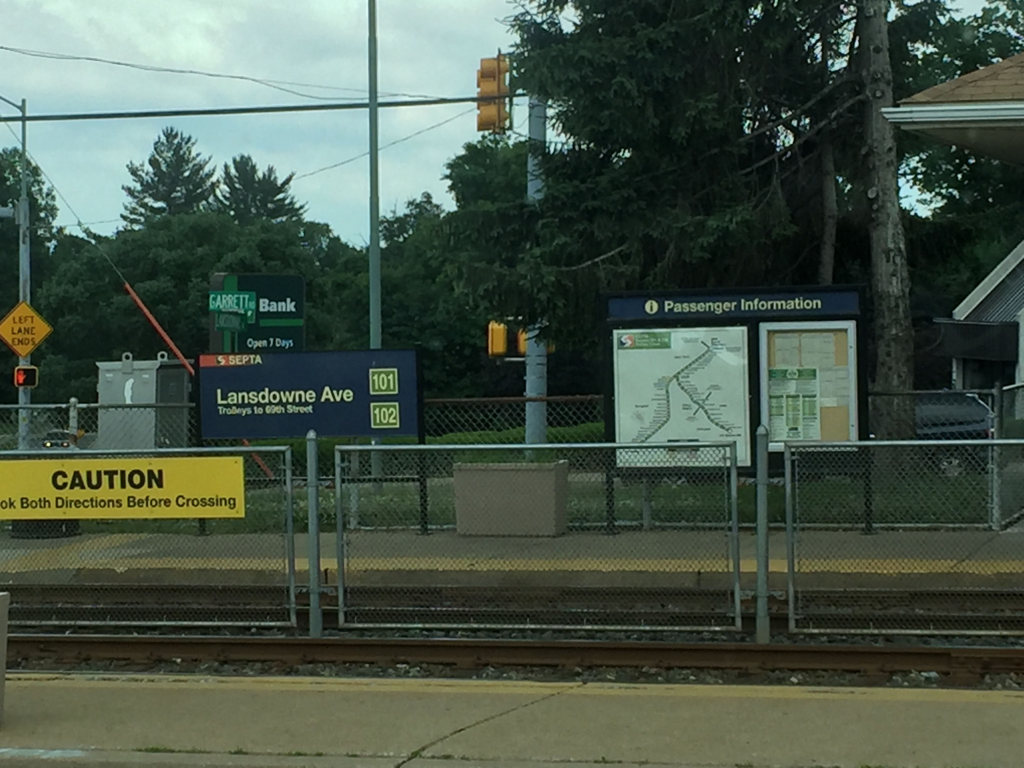 Lansdowne Avenue Trolley station